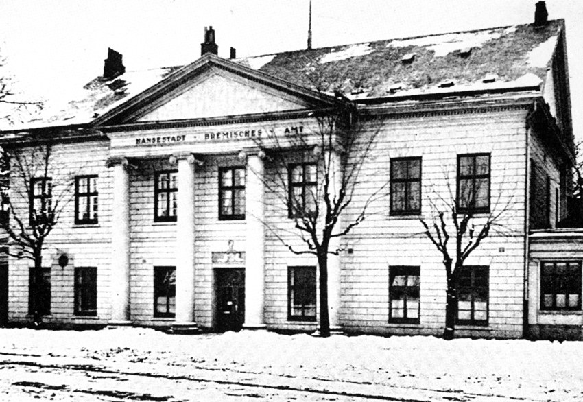 Bremisches Amthaus in Bremerhaven, Germany. Built 1829 and destroyed in 1944.